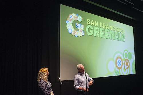 Filmmaker Andrew Garrison at the San Francisco premiere of his documentary 'Trash Dance' at the Closing Night of the 3rd San Francisco Green Film Festival, June 5, 2013.